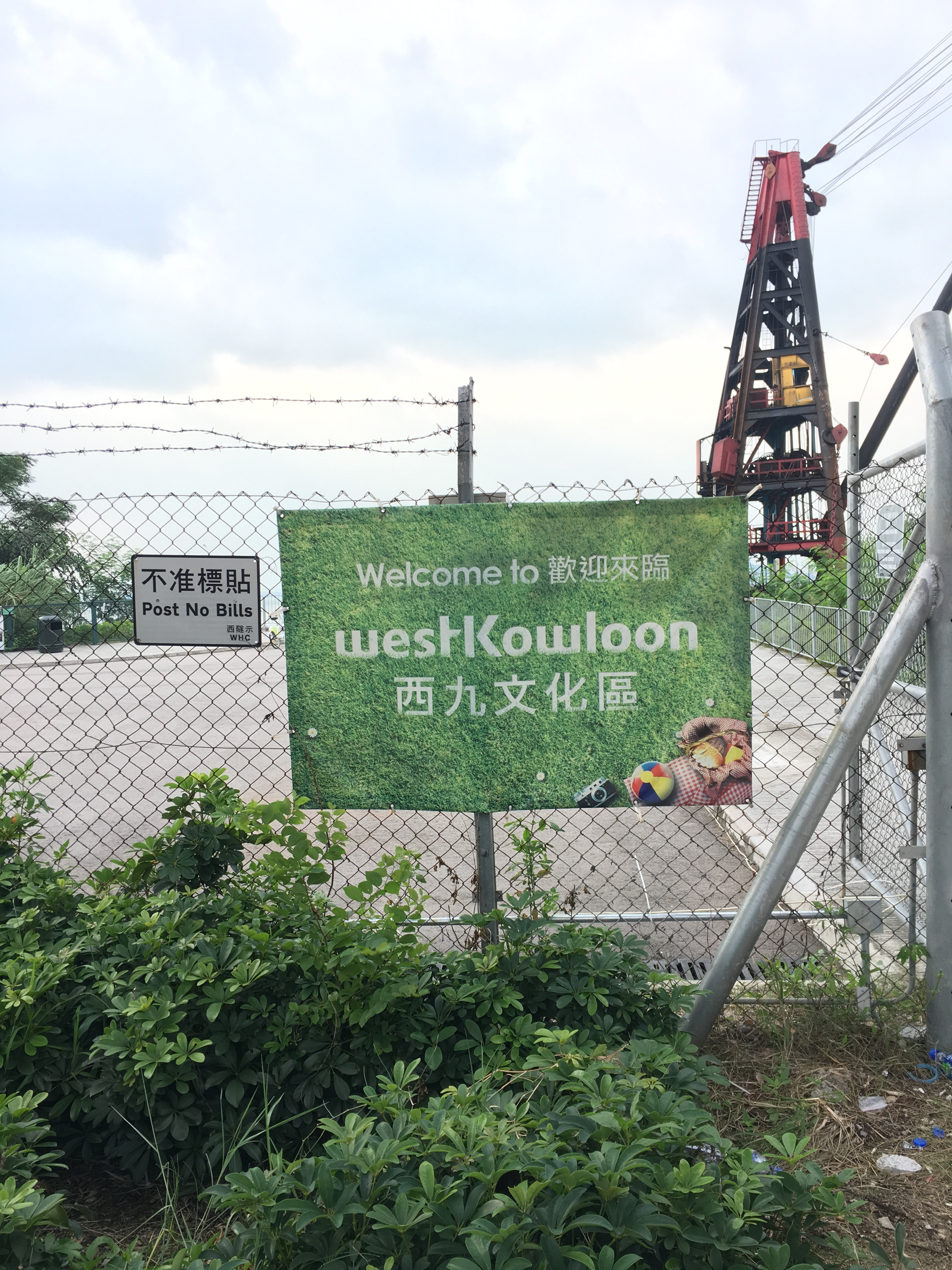 West Kowloon Cultural District Western Harbour Crossing Entrance Sign